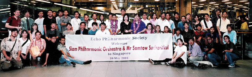 Siam Philharmonic Orchestra publicity picture, owned by Bangkok Opera Foundation, released into public domain